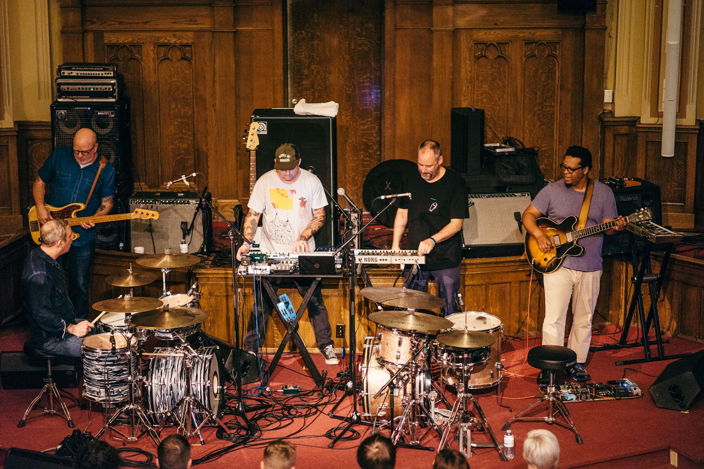 Sled Island 2016